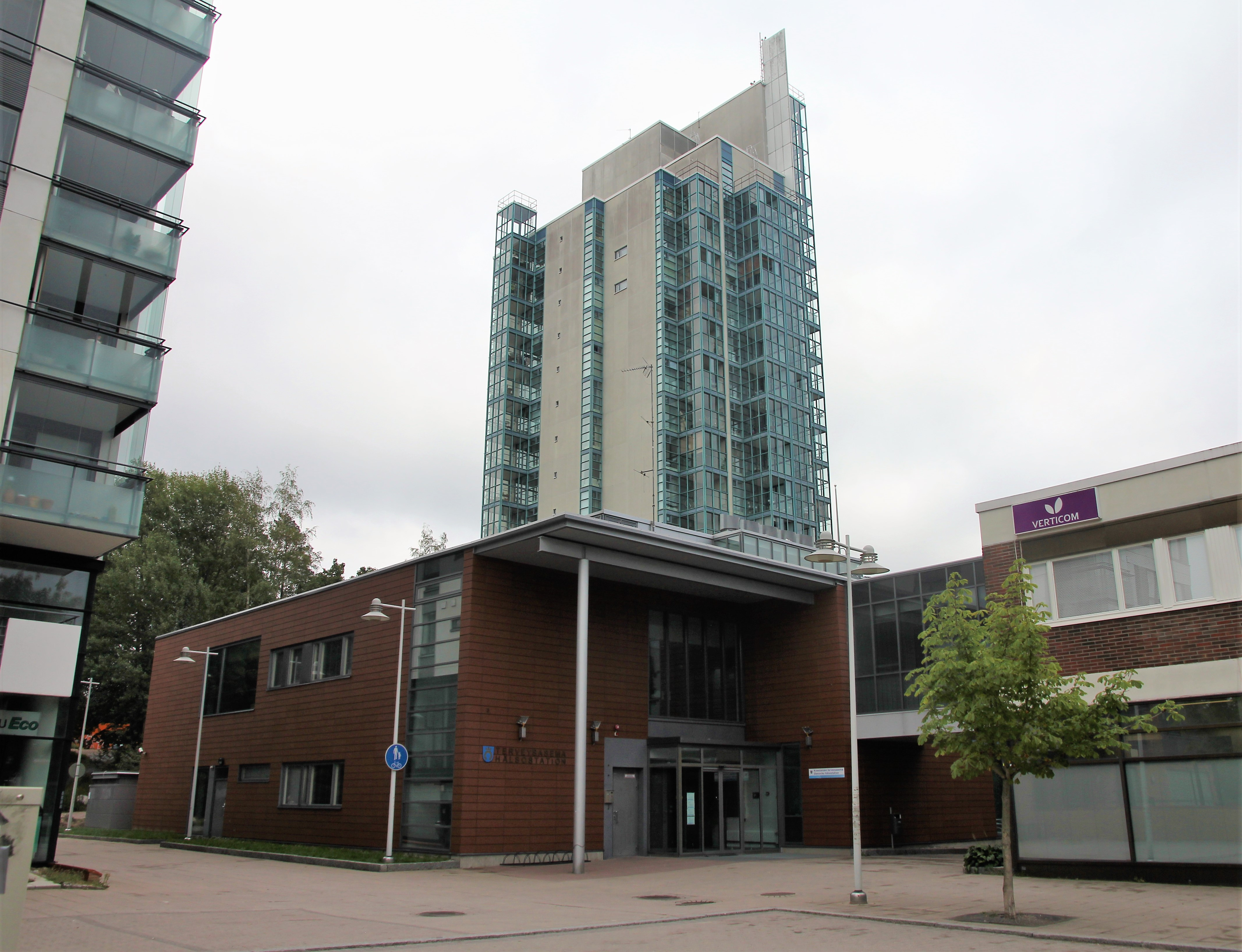 Kivenlahti health station in Espoonlahti, Espoo. Address: Meriusva 3, Espoo.